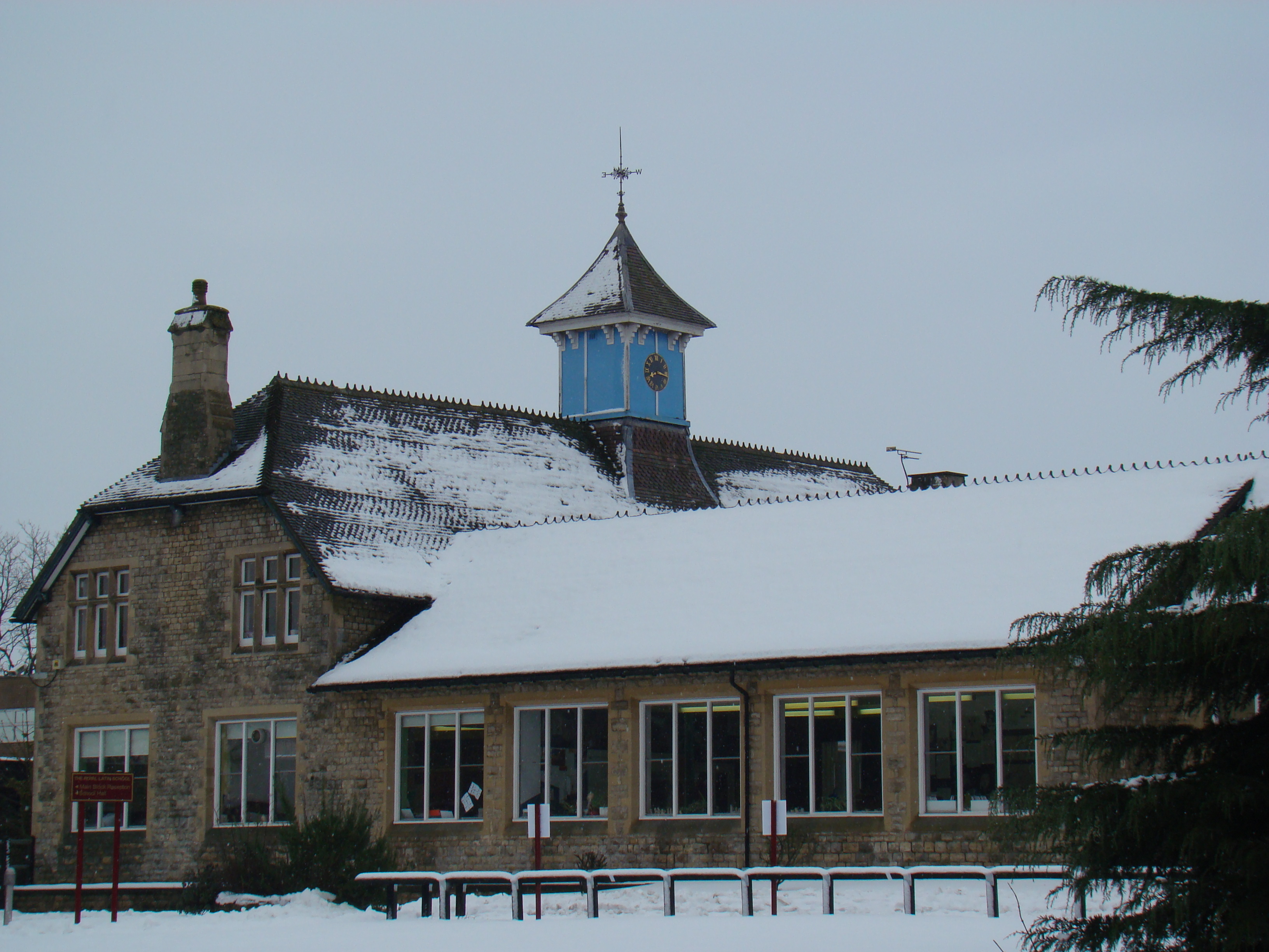 Brookfield House at the Royal Latin School, Buckingham, England, in snow